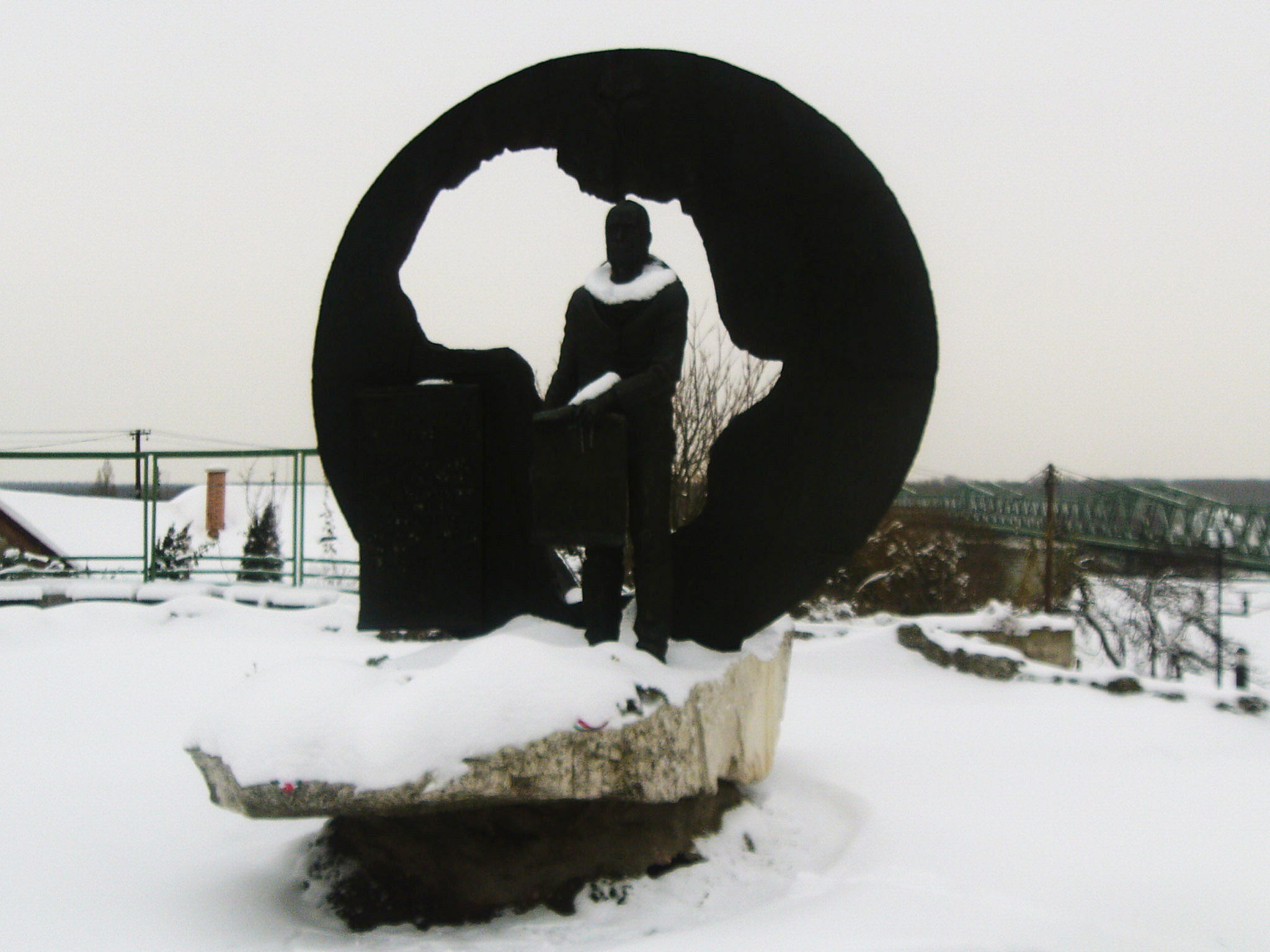 Dunafoldvar, HungaryMagyar László szobra (Mészáros Mihály, 1988, Terméskő talpazaton bronz körből Afrika sziluettje kivágva, előtte Bronz szobor kezében papírtekercs.) -Tolna megye, Dunaföldvár, a Csonka torony melletti tisztáson